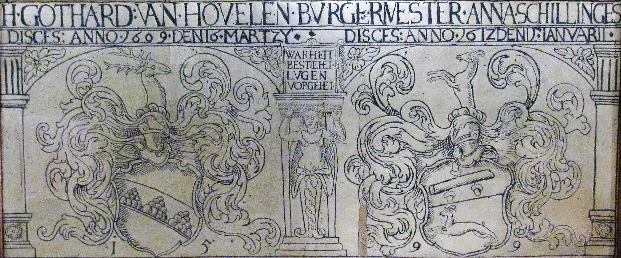 Brass epitaph for Gotthard (V.) von Höveln (+ 1609) in the Marienklirche, Lübeck